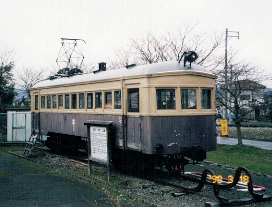 Kambara railway's dead car in Muramatsu park.